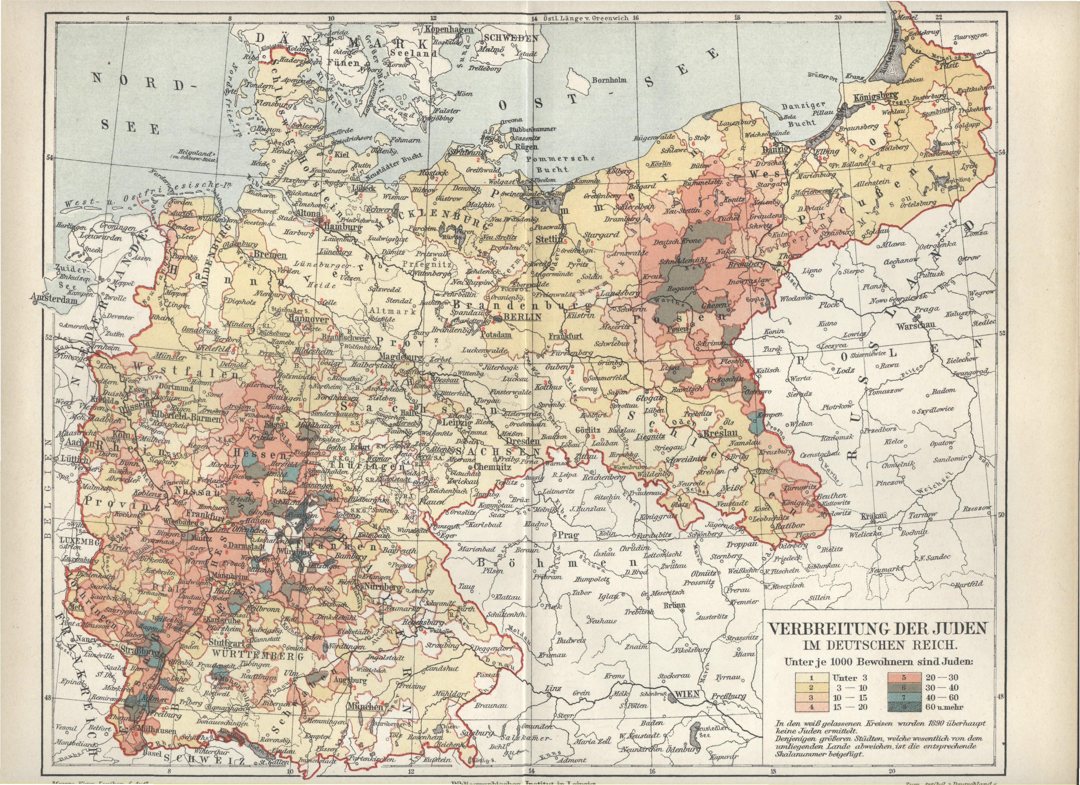 Map showing distribution of Jews in the German Reich as of the 1890s